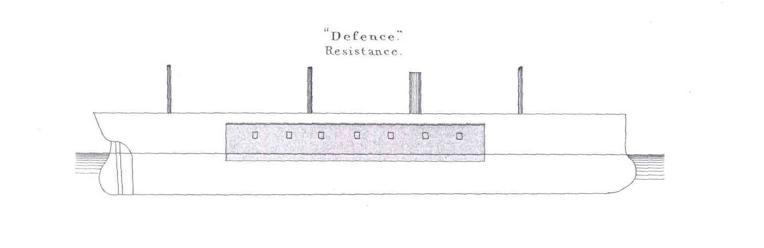 Ironclad HMS Defence of 1861. The grey part is the armour, only partly covering the ship. Line-drawing from Brassey's Naval Annual 1888.